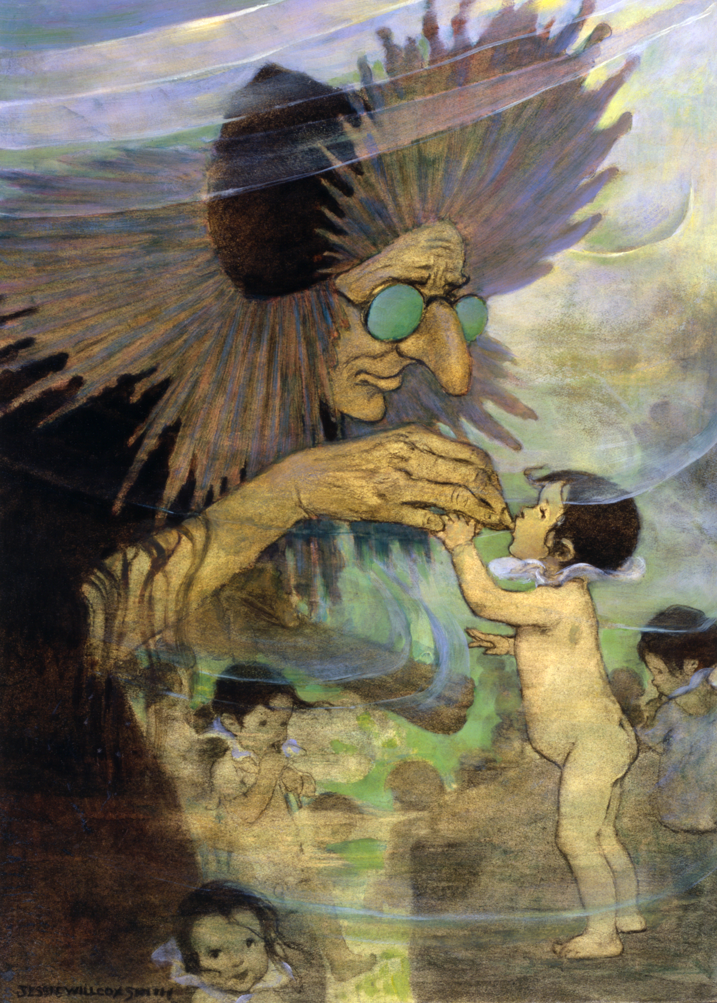 "Mrs. Bedonebyasyoudid." Illustration for Charles Kingsley's The Water Babies in charcoal, water, and oil. (New York : Dodd, Mead & Co., 1916), p. 236.